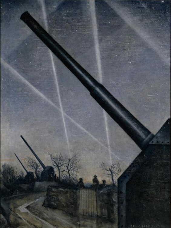 Nevinson was disappointed not to be offered a commission during the Second World War. He railed against Sir Kenneth Clark, chairman of the War Artists Advisory Committee, and against the Imperial War Museum. Nevinson had also been in constant correspondence with the Imperial War Museum since the First World War owing to his believed ill-treatment by them. image: View of an anti-aircraft battery set in countryside with searchlight beams crossing the sky and attendant soldiers